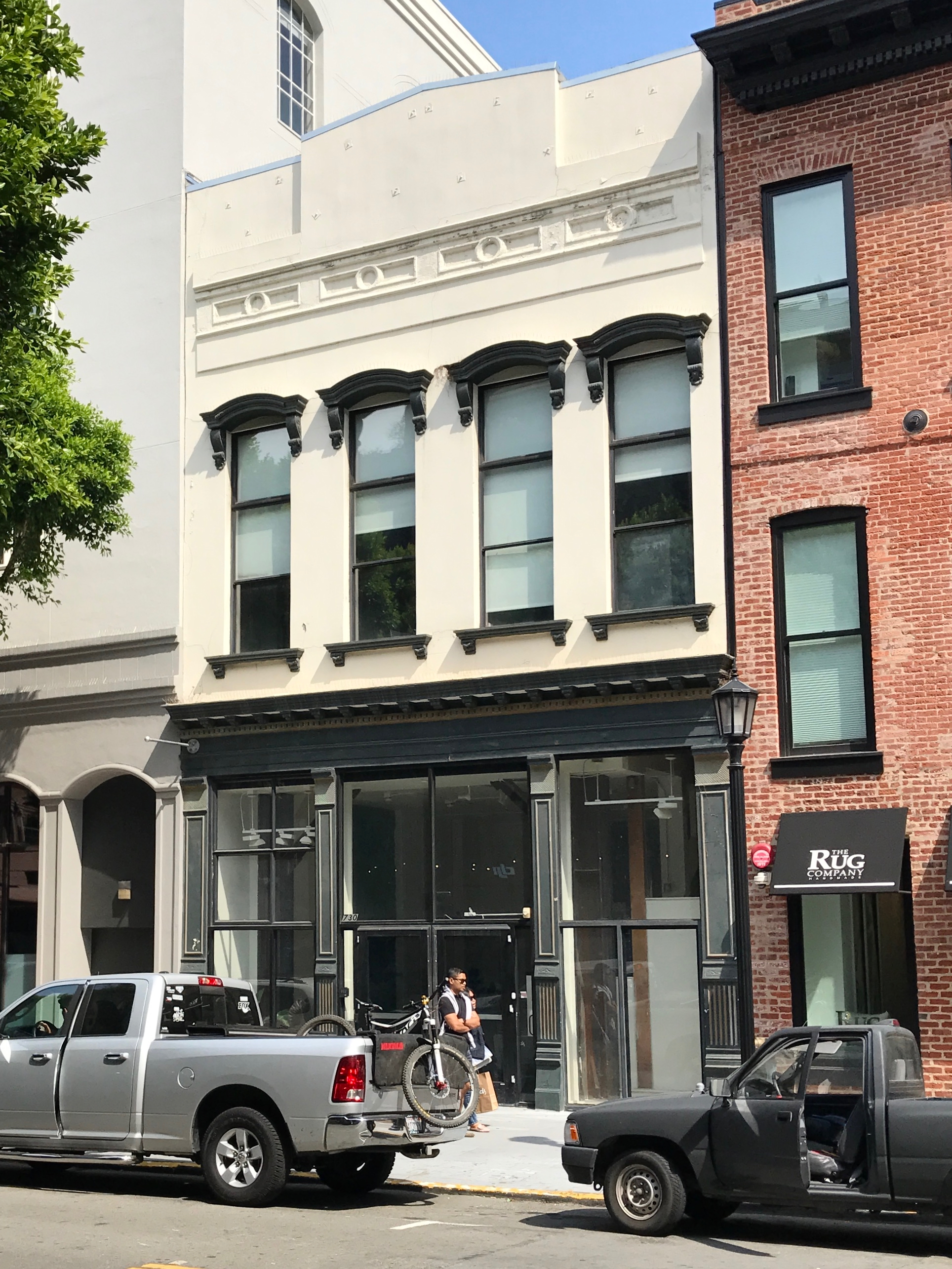 On the San Francisco list of Designated Landmarks.